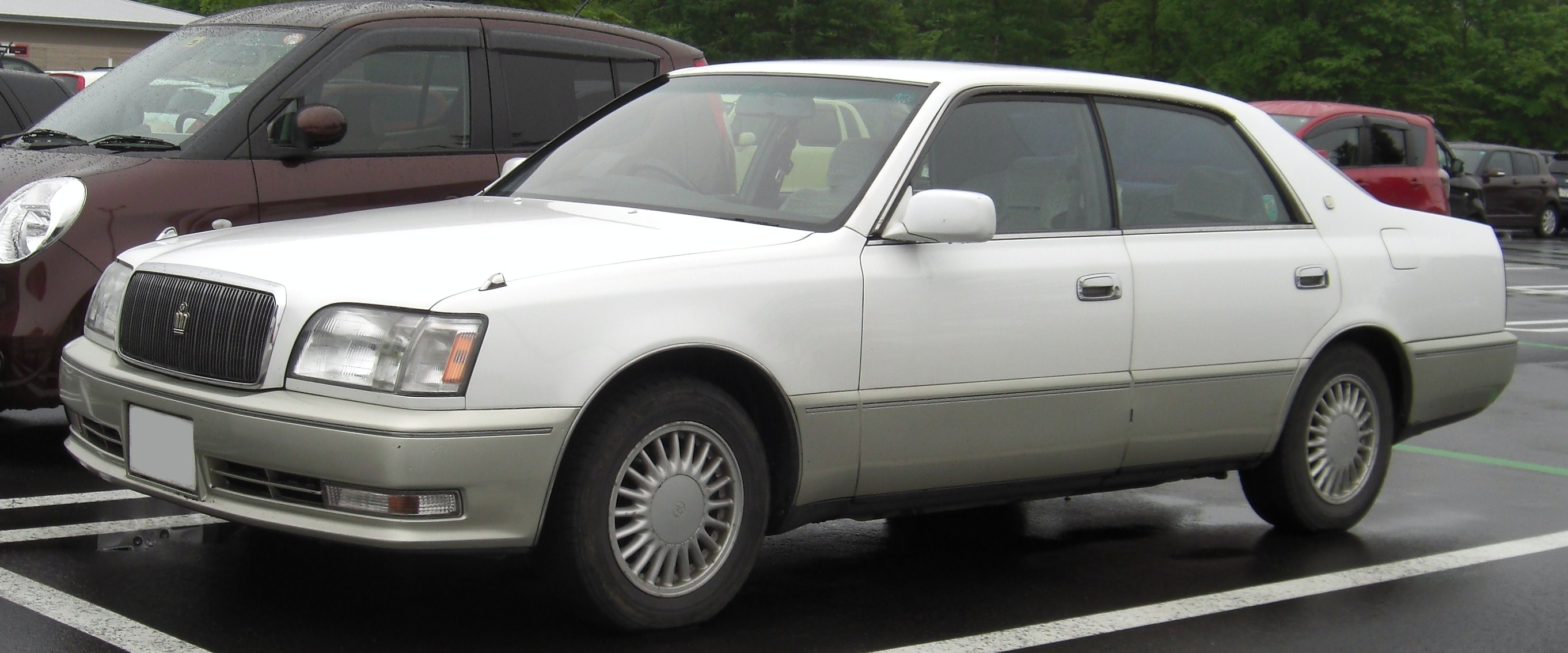 Toyota Crown Majesta